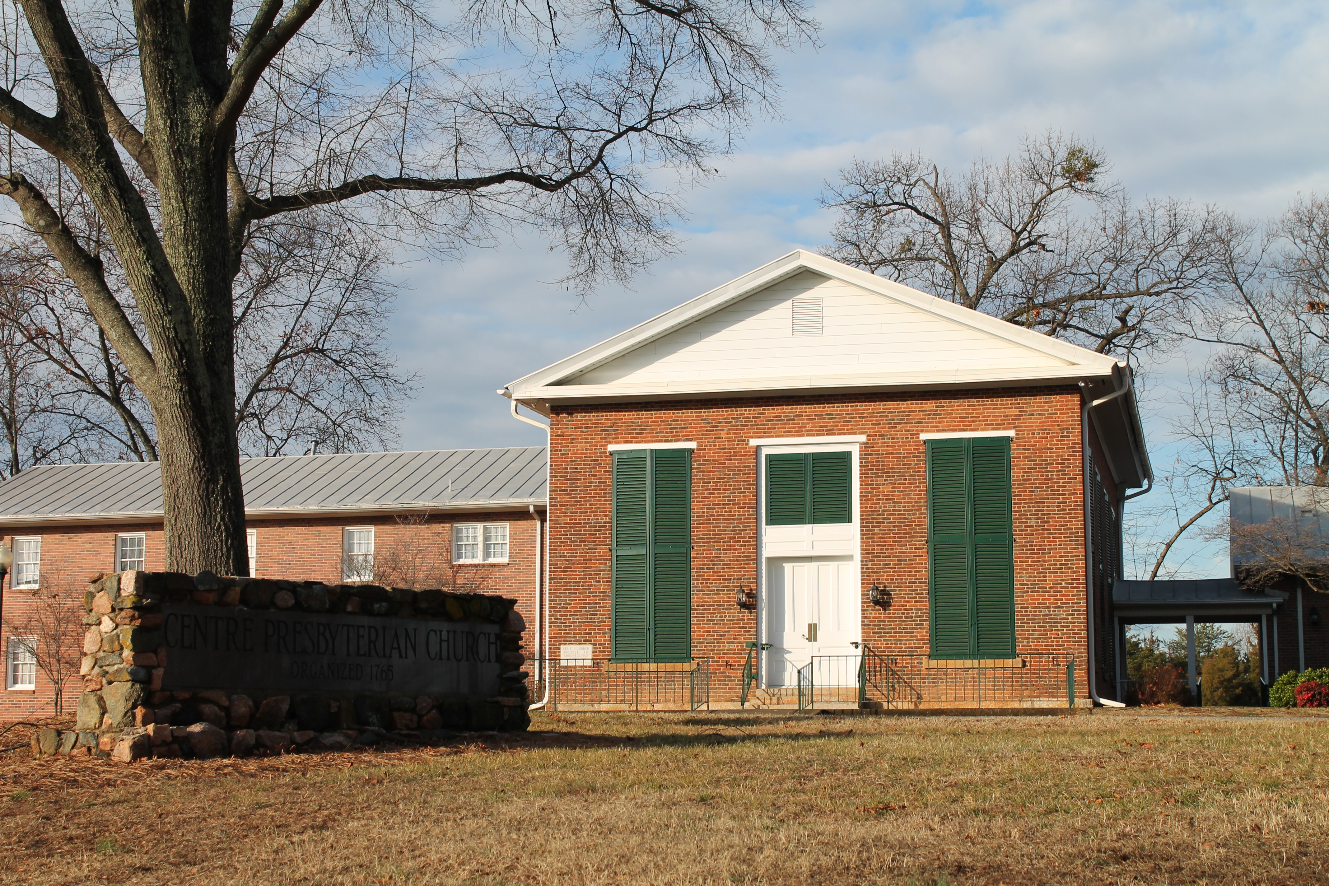 A view of Centre Presbyterian Church in Mount Mourne, North Carolina - an NRHP-listed building